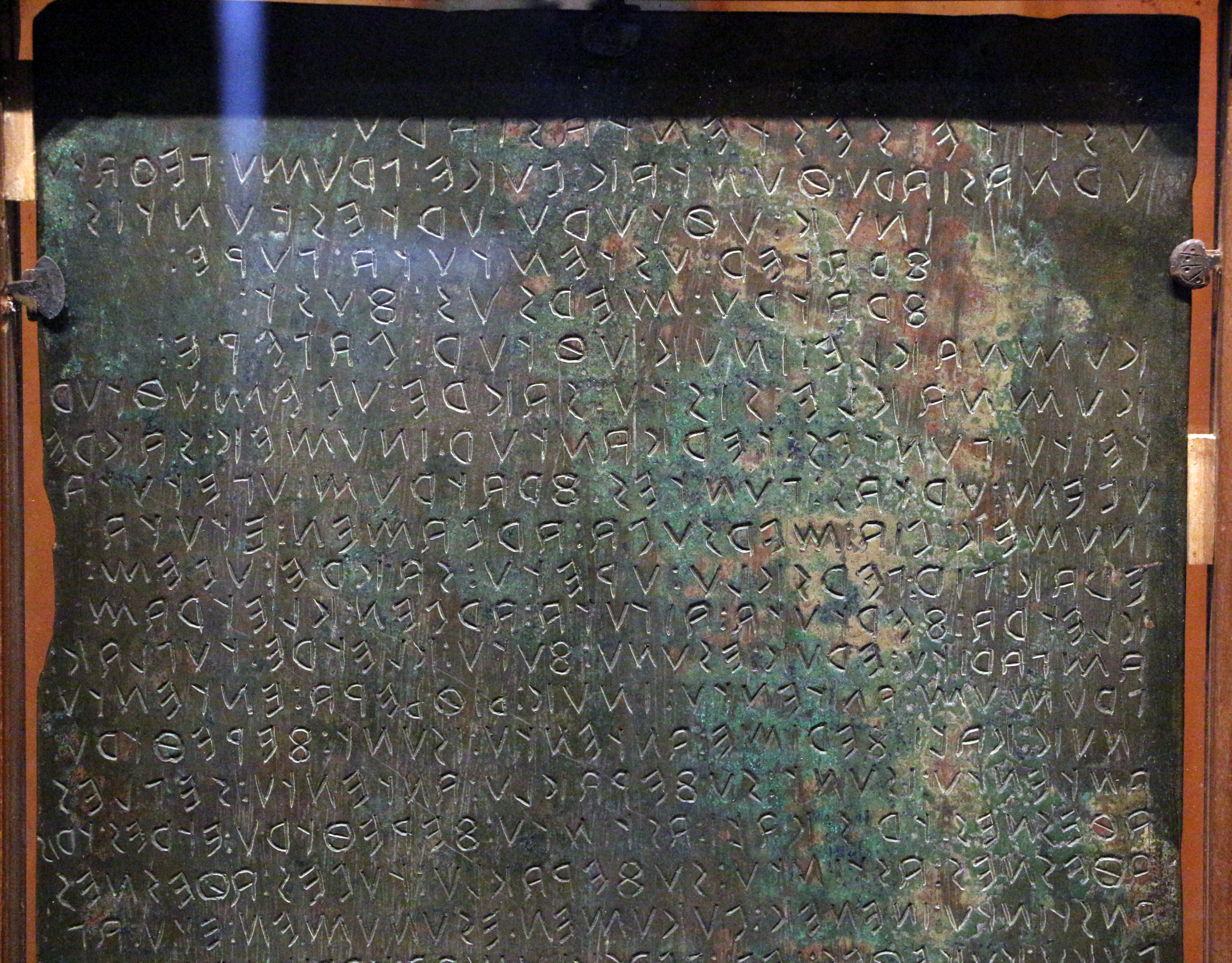 Iguvine Tablets